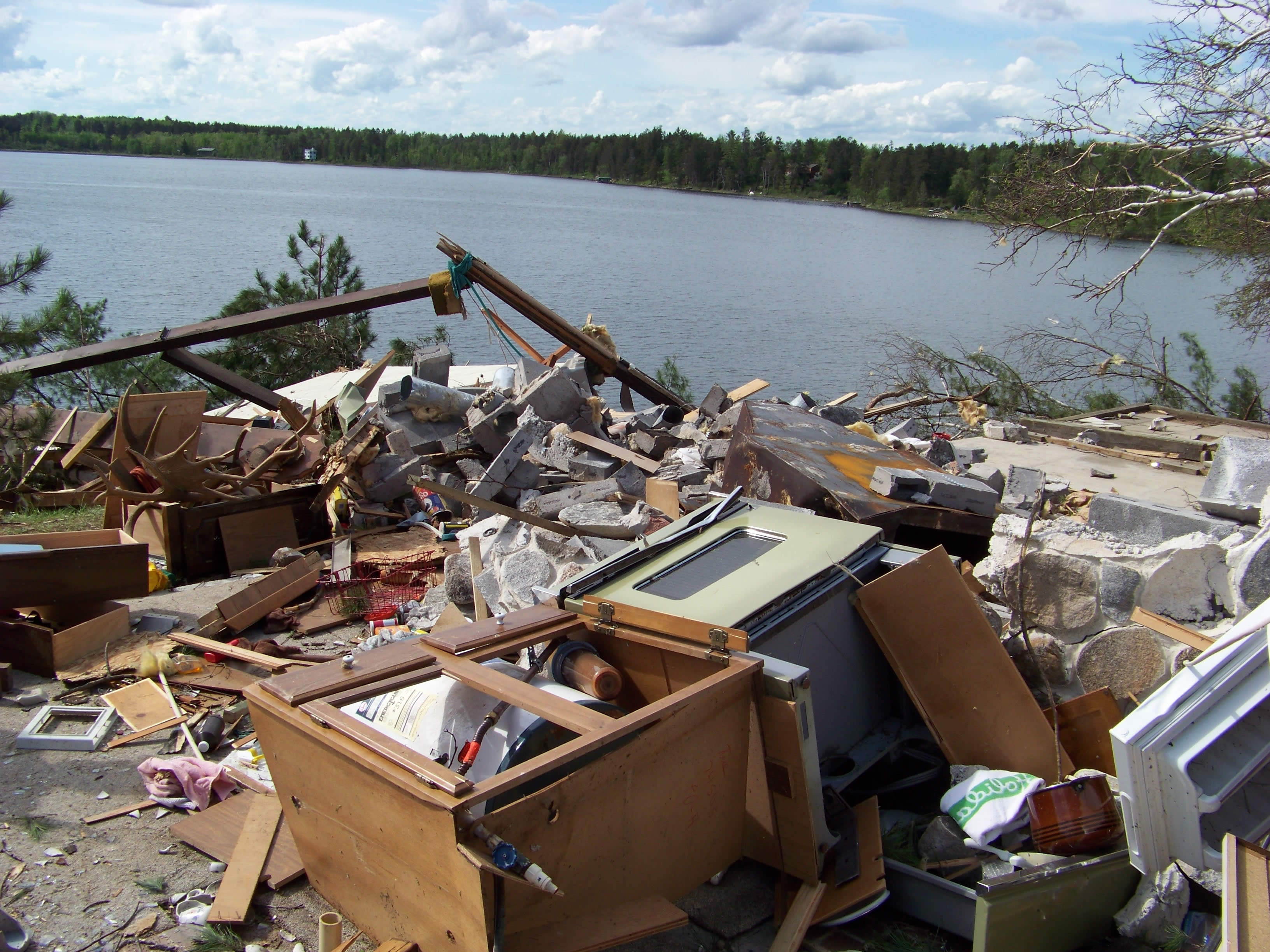 Major damage was reported across portions of northwestern Minnesota including this destroyed structure in Hubbard County, Minnesota. Courtesy of NWS Grand Forks, ND